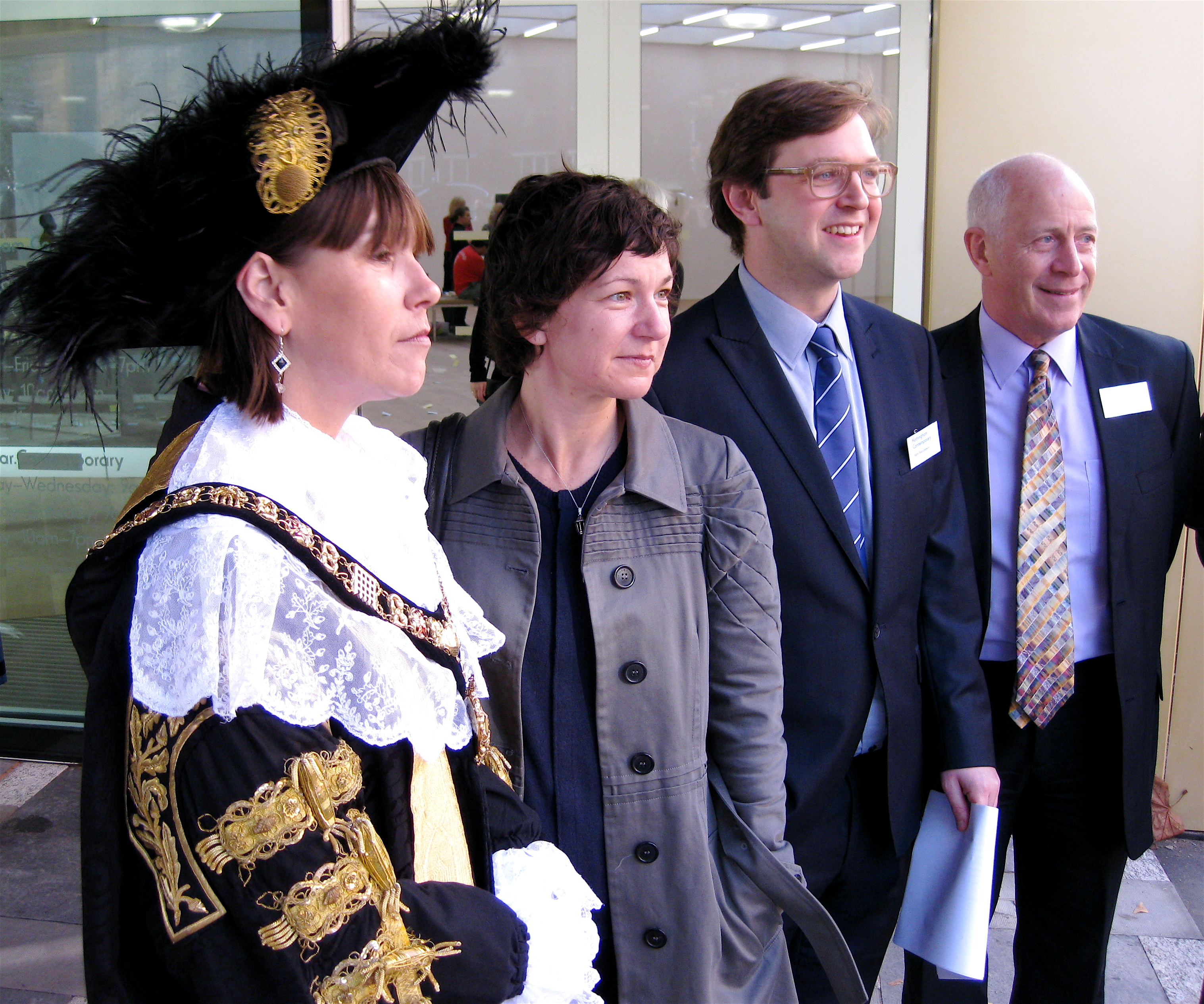 The Mayor Jeannie Packer, Frances Stark, Alex Farquharson and Gary Smerdon-White at Nottingham Contemporary.